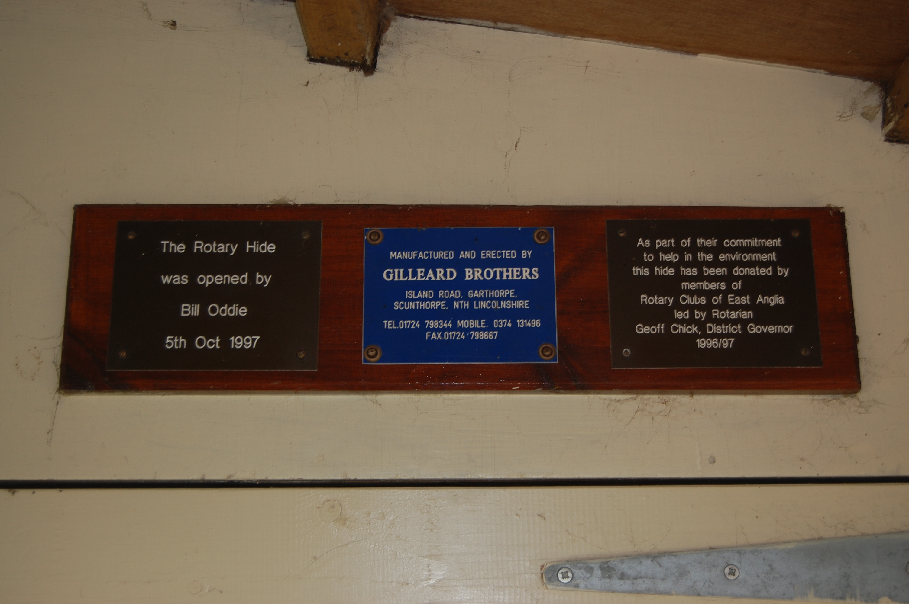 Set of three plaques in the Rotary Hide at RSPB Snettisham, donated by the Rotary Clubs of East Anglia, built by Gilleard Brothers of Scunthorpe, and opened on 5 October 1997, by Bill Oddie.